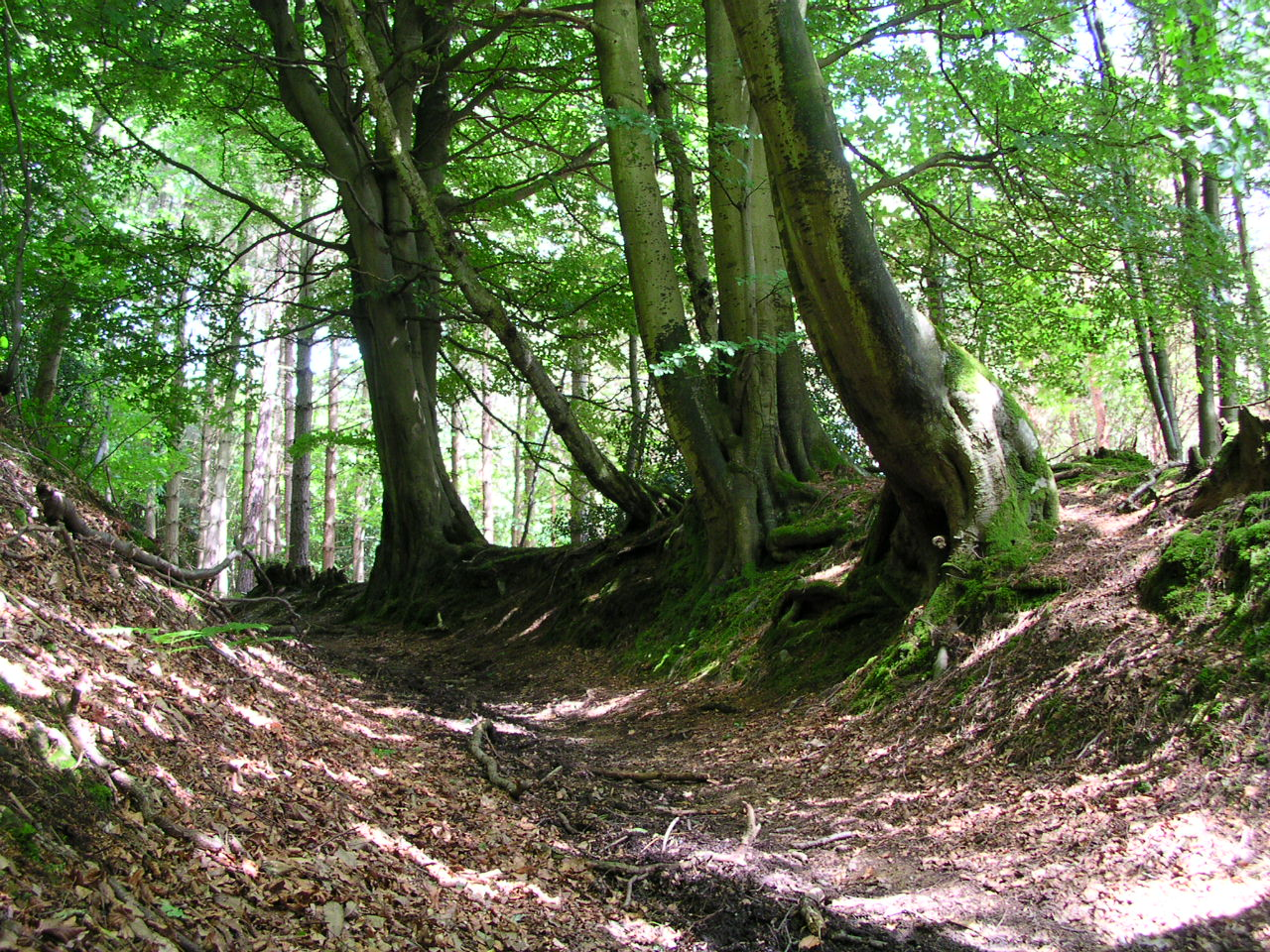 A track in Flexham Park, Bedham, West Sussex, England.